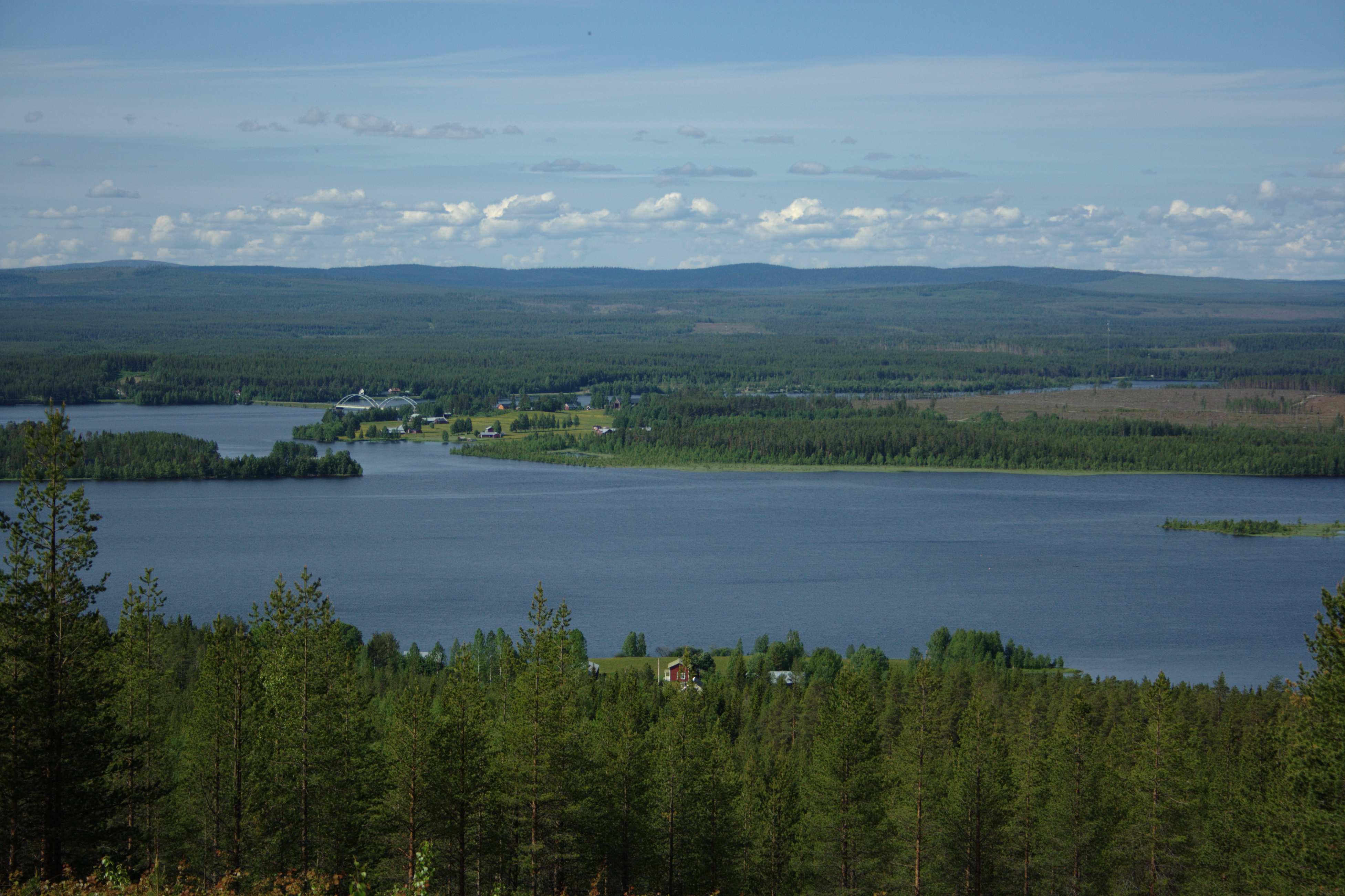 The Blåviks lake seen from Mount Rusele. The narrow blue cord that goes under the bridge is the Ume River, which flows from right to left in the picture. At the bridge lies the village of the New Rusele.